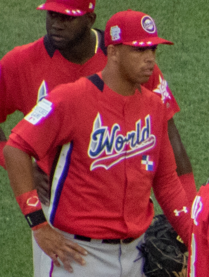 Dominican infielder Yordan Alvarez, Dominican infielder Luis Garcia, Venezuelan shortstop Andres Gimenez, Dominican infielder Fernando Tatis, Jr., Venezuelan catcher Keibert Ruiz and Dominican coach David Ortiz of the World team conduct a mound visit during the 2018 All-Star Futures Game at Nationals Park in Washington, D.C.